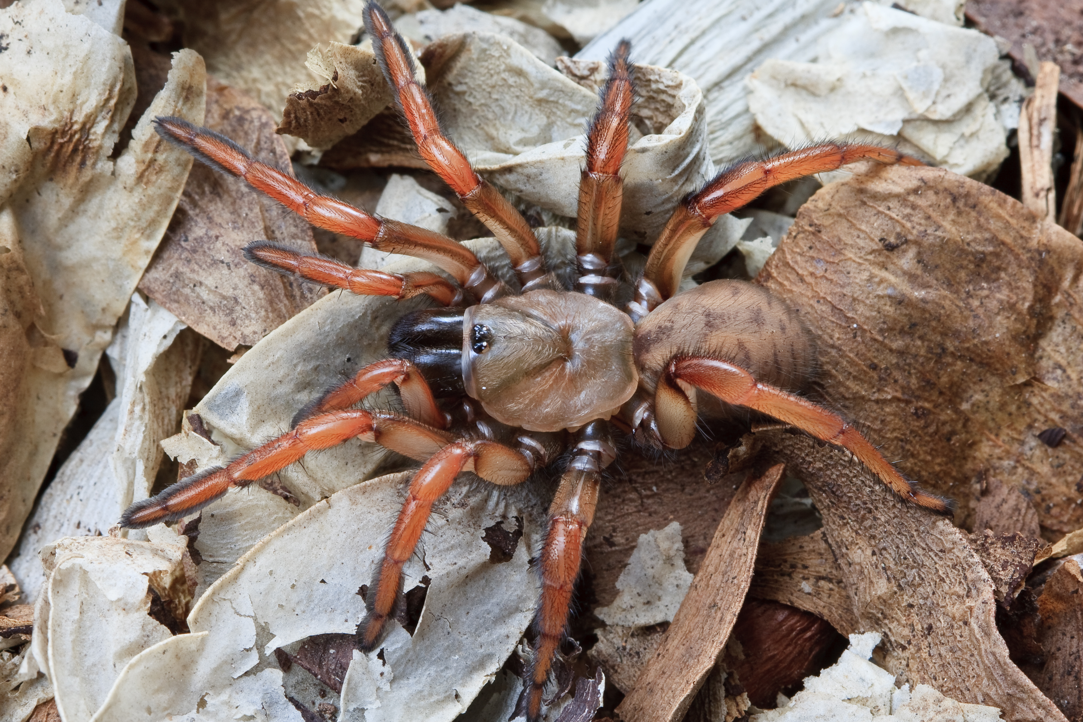 Female spider Aptostichus sp. (Euctenizidae)